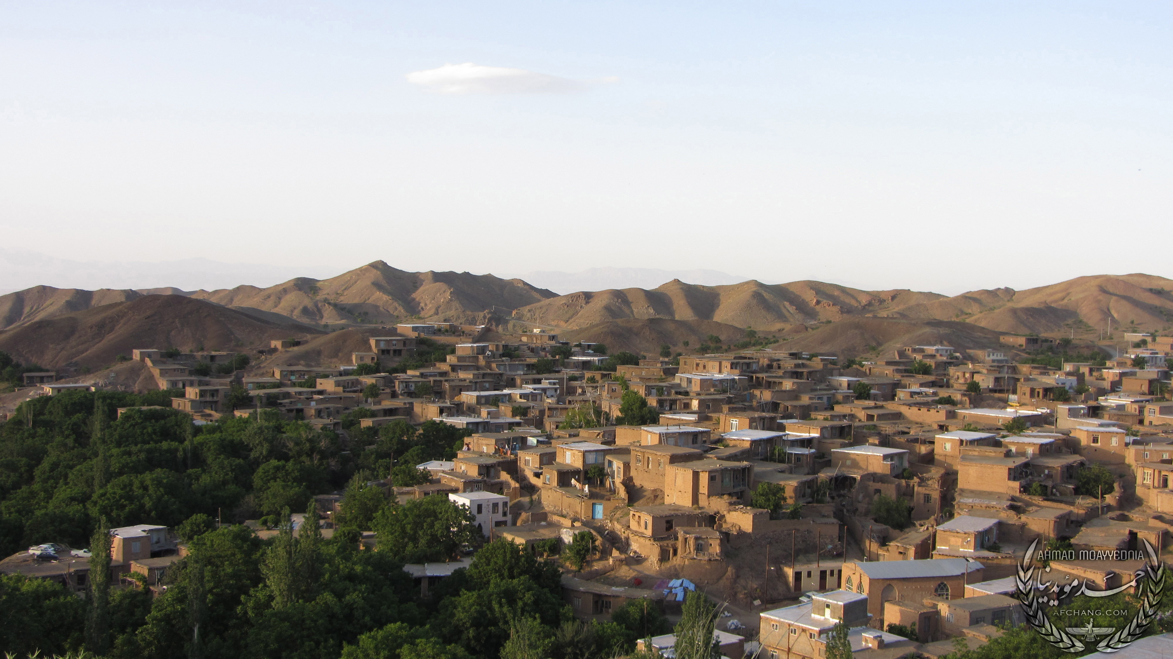 Afchng village located 30 km from the city of Sabzevar. Village's most beautiful and pleasant climate and is one of the Sabzevar recreation areas. History of the village is the Aryan peoples